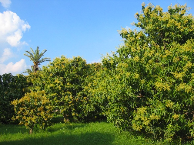 Mango tree, taken photo during a trip to Multan, Pakistan.